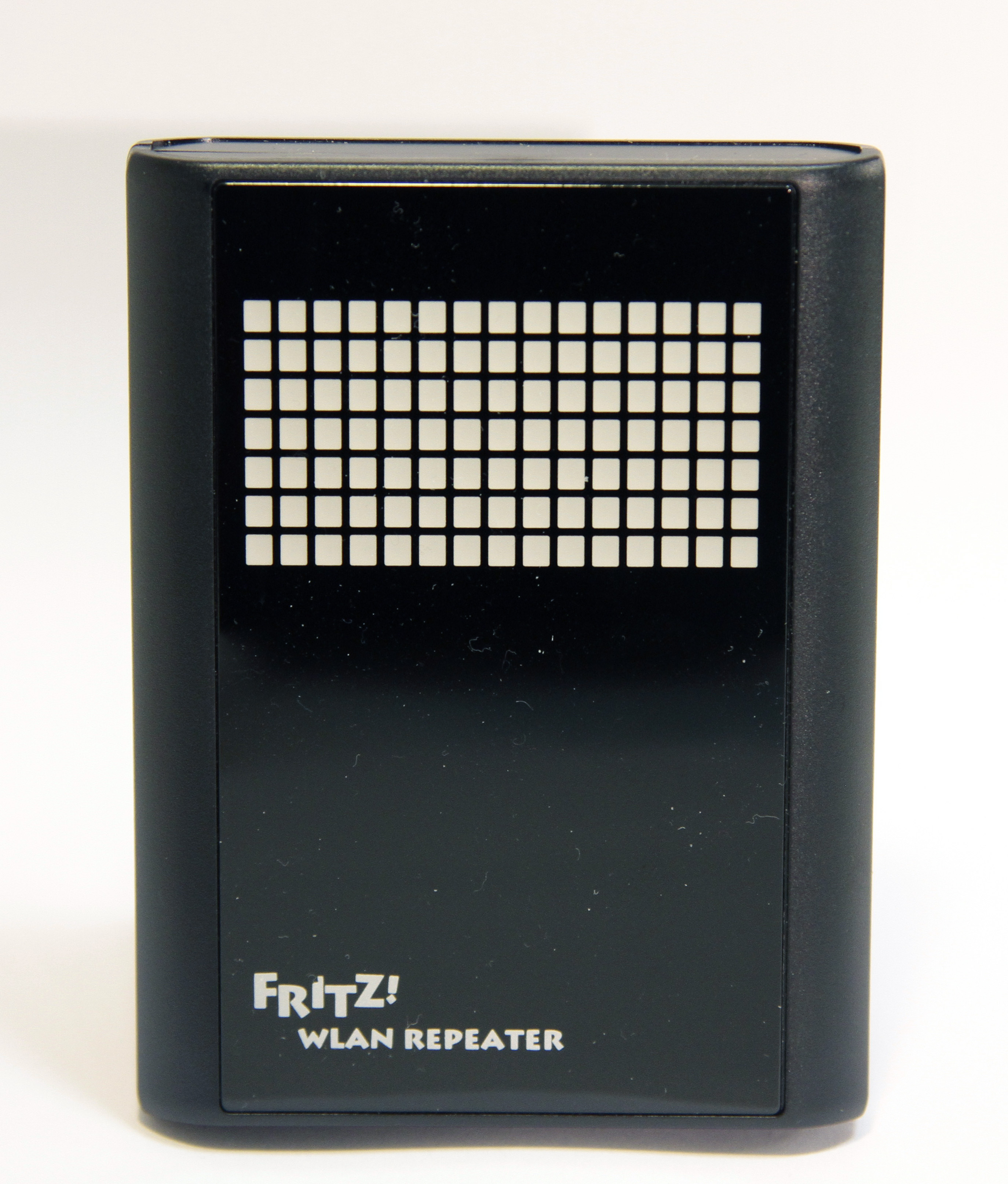 FRITZ!box WLAN Repeater N/G